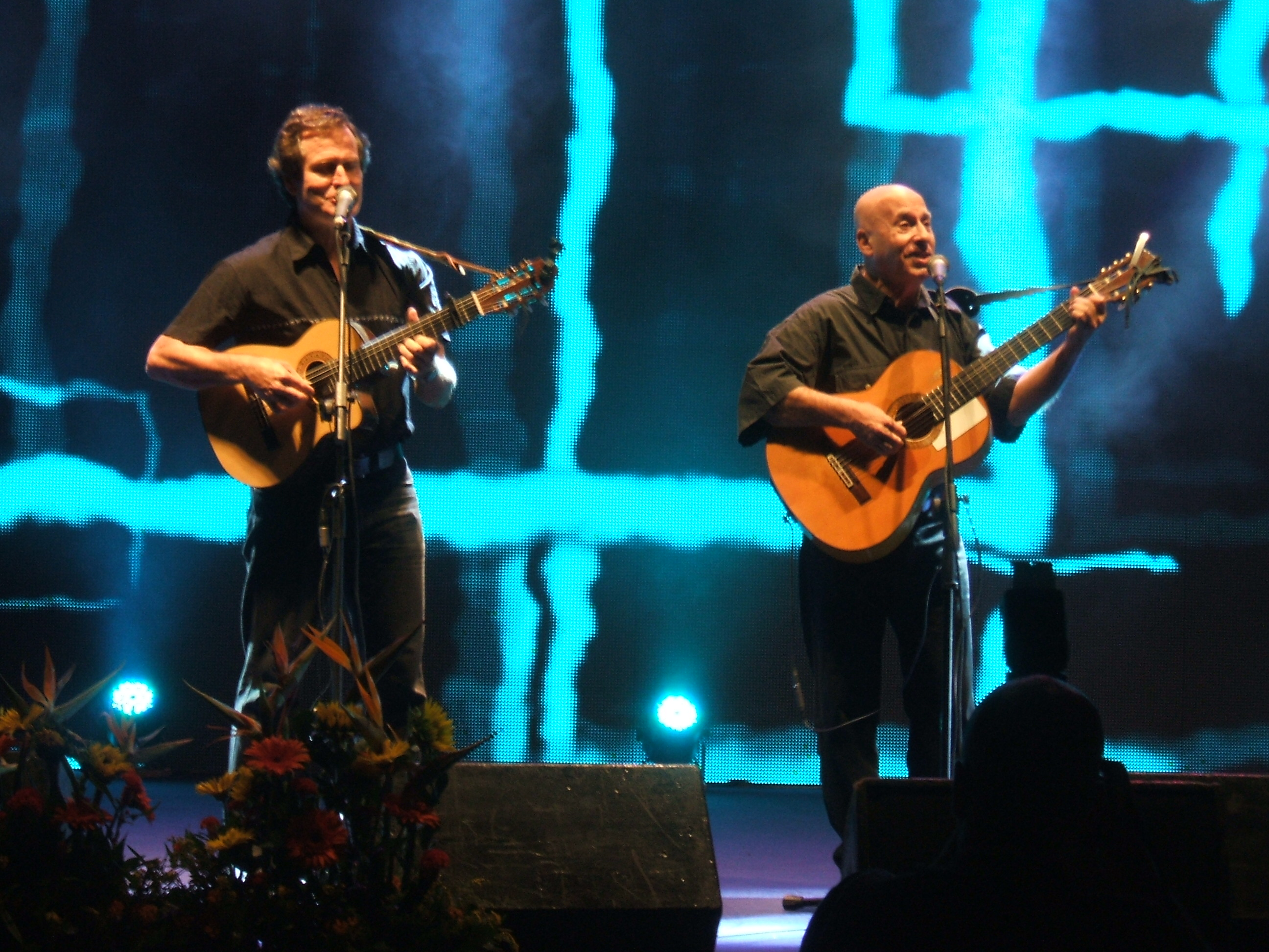 The "Parvarim" in a concert.